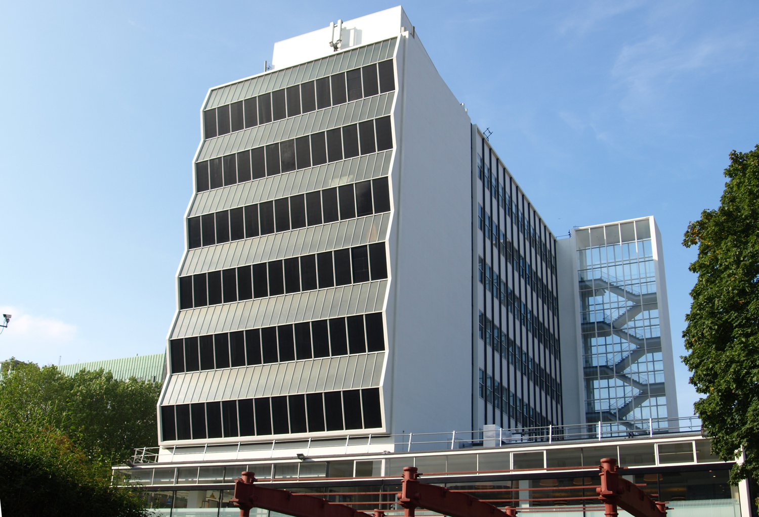 Renold Building as taken by myself in September 2014.